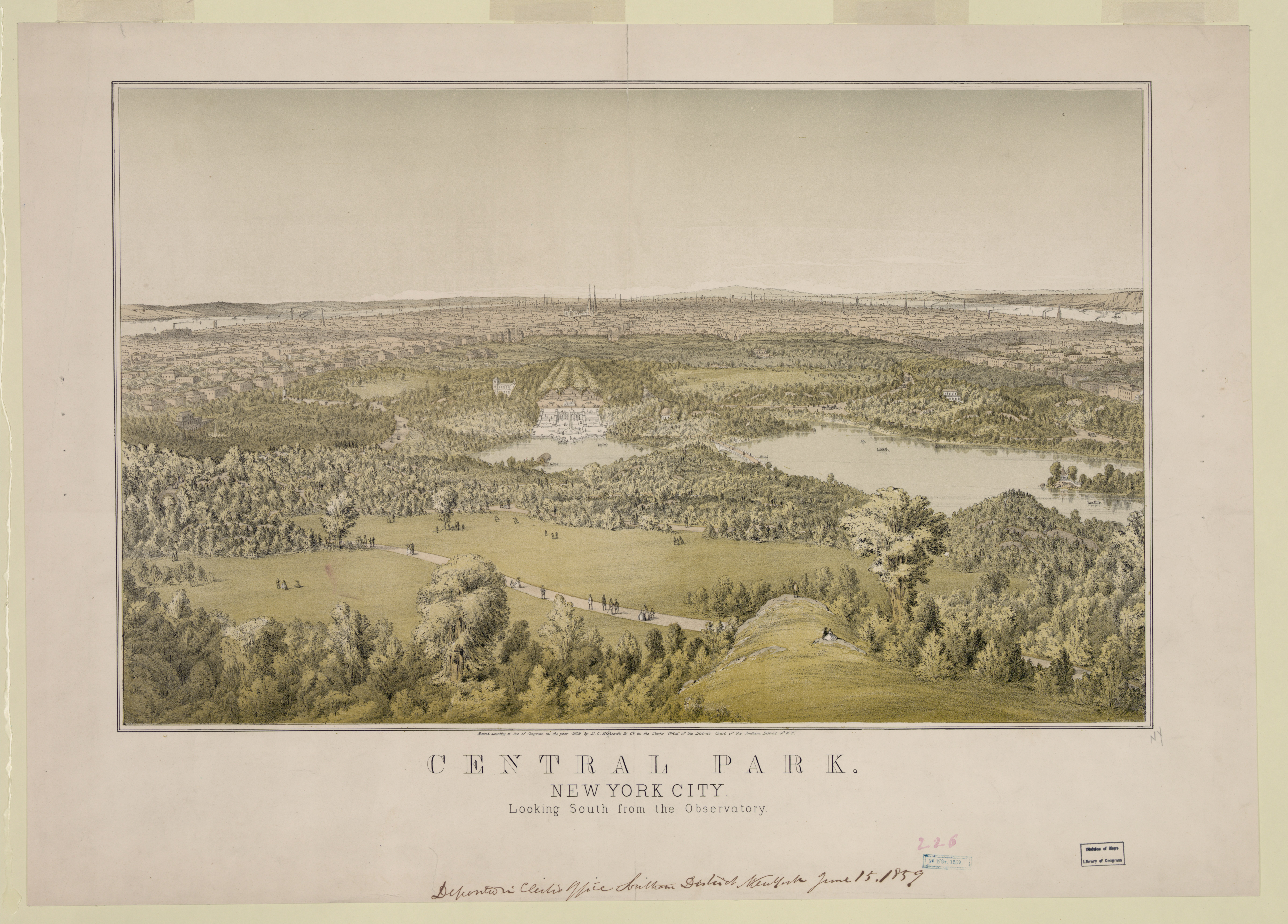 Title: Central Park New York City looking south from the observatory Physical description: 1 print. Notes: Copyright Deposit, Southern District of N.Y.; This record contains unverified data from PGA shelflist card.; Associated name on shelflist card: Hitchcock & Co.